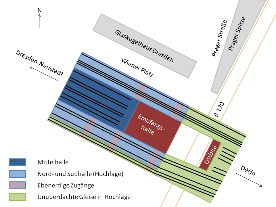 Schematic of Dresden Hauptbahnhof (cutline in German)